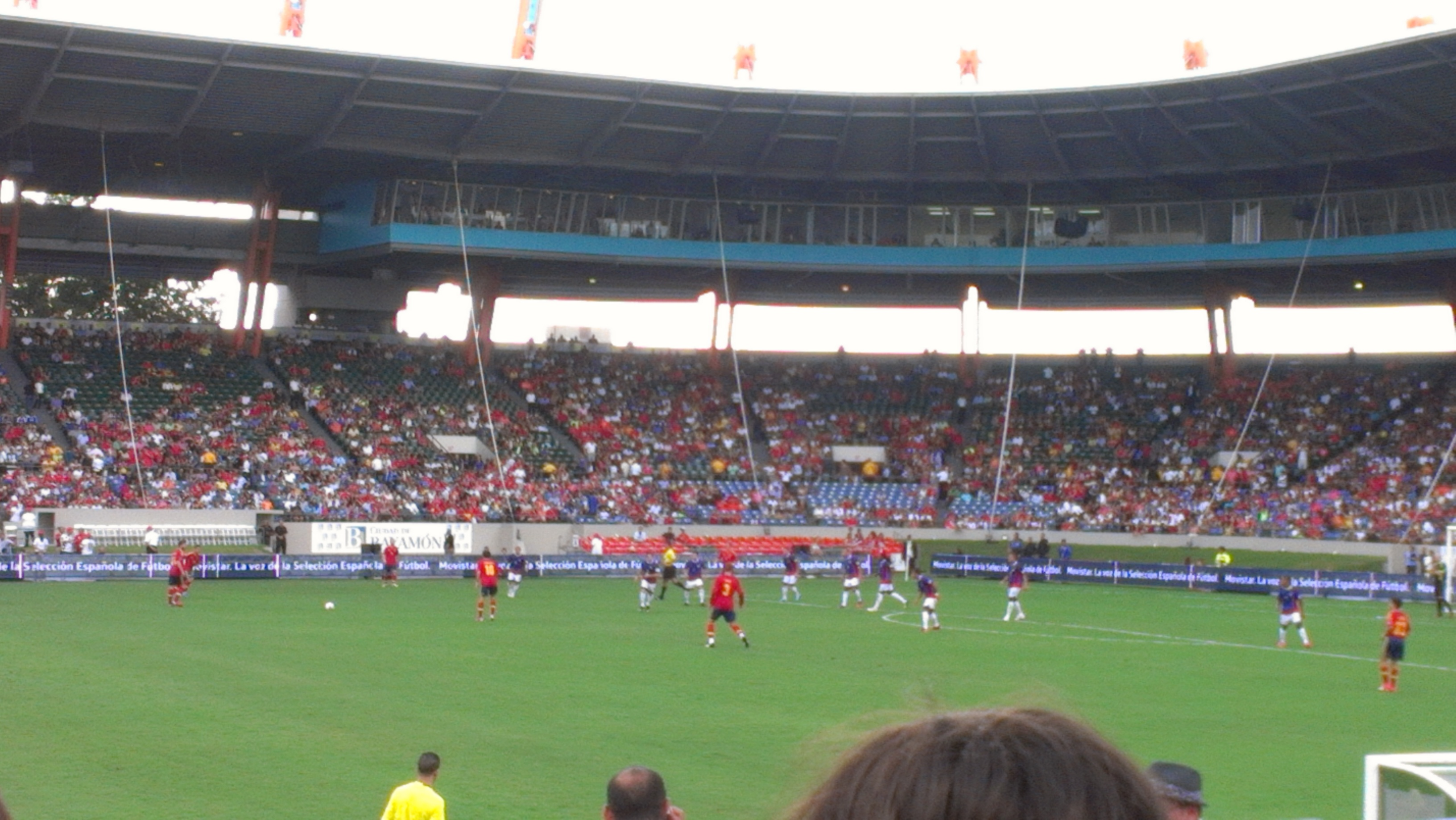 Game Puerto rico vs Spain